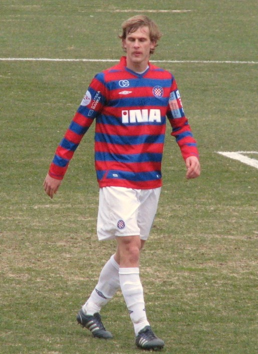 Ivan Strinić